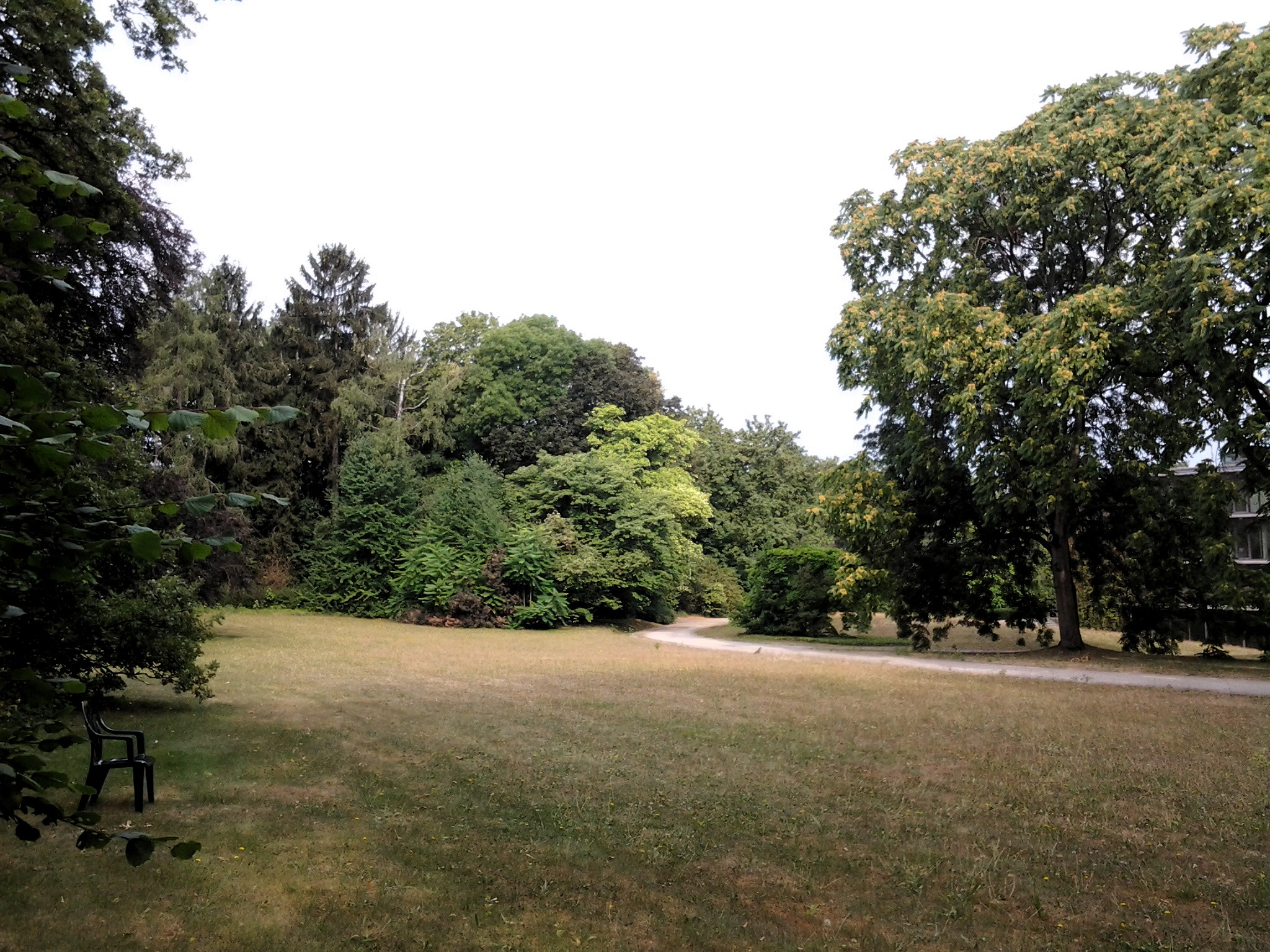 Park of Sankt Georgen Graduate School of Philosophy and Theology